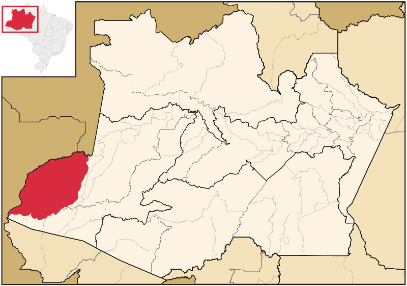 Map of Amazonas highlighting Atalaia do Norte.